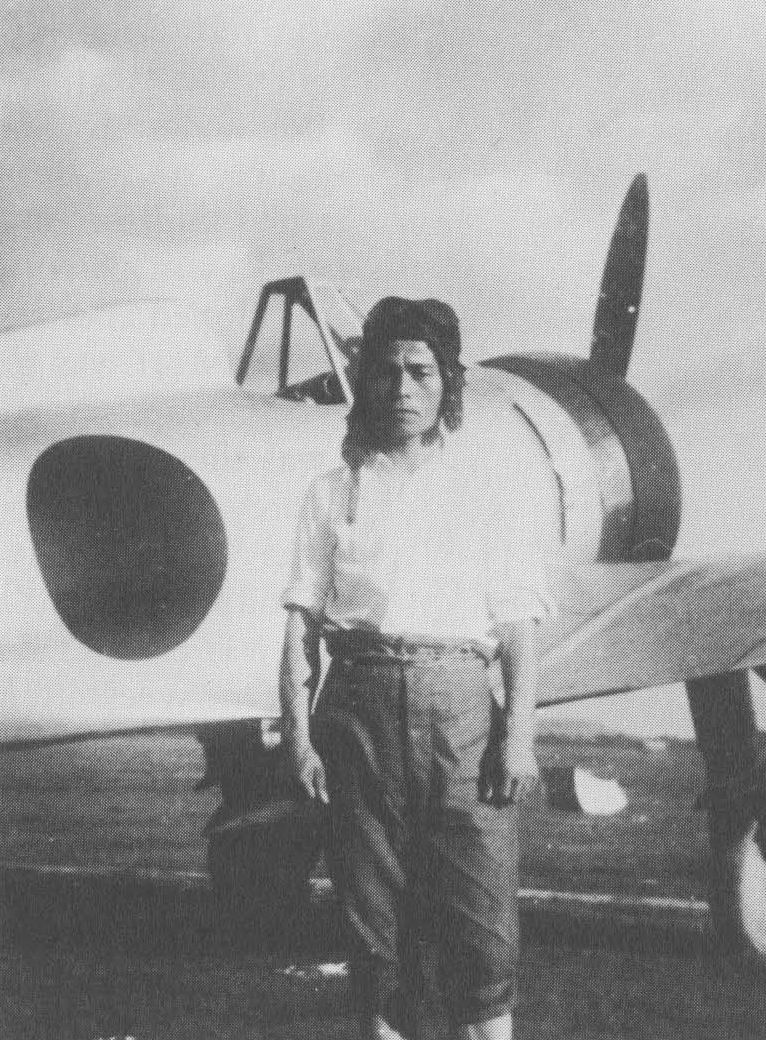 Imperial Japanese Navy fighter ace Mitsugu Mori. In service in the Sino-Japanese and Pacific wars, he was credited with destroying nine enemy aircraft. This photo was taken in 1938 or 1939 while Mori was serving with the 12th Air Group in China. In the background is a Mitsubishi A5M, navy long designation Mitsubishi Navy Type 96 Carrier Fighter.